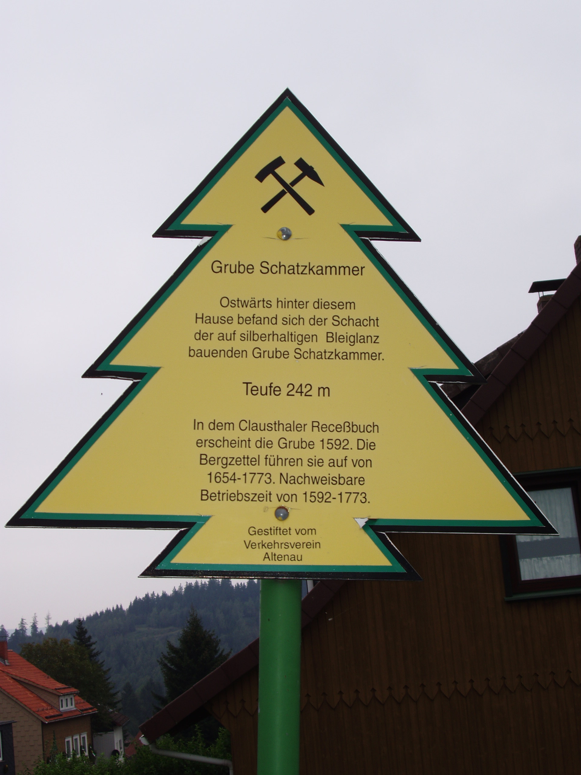 "Dennert Fir Tree" № 12 information board on mining in Altenau, Harz mountains, Lower Saxony, Germany.